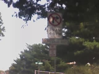 self